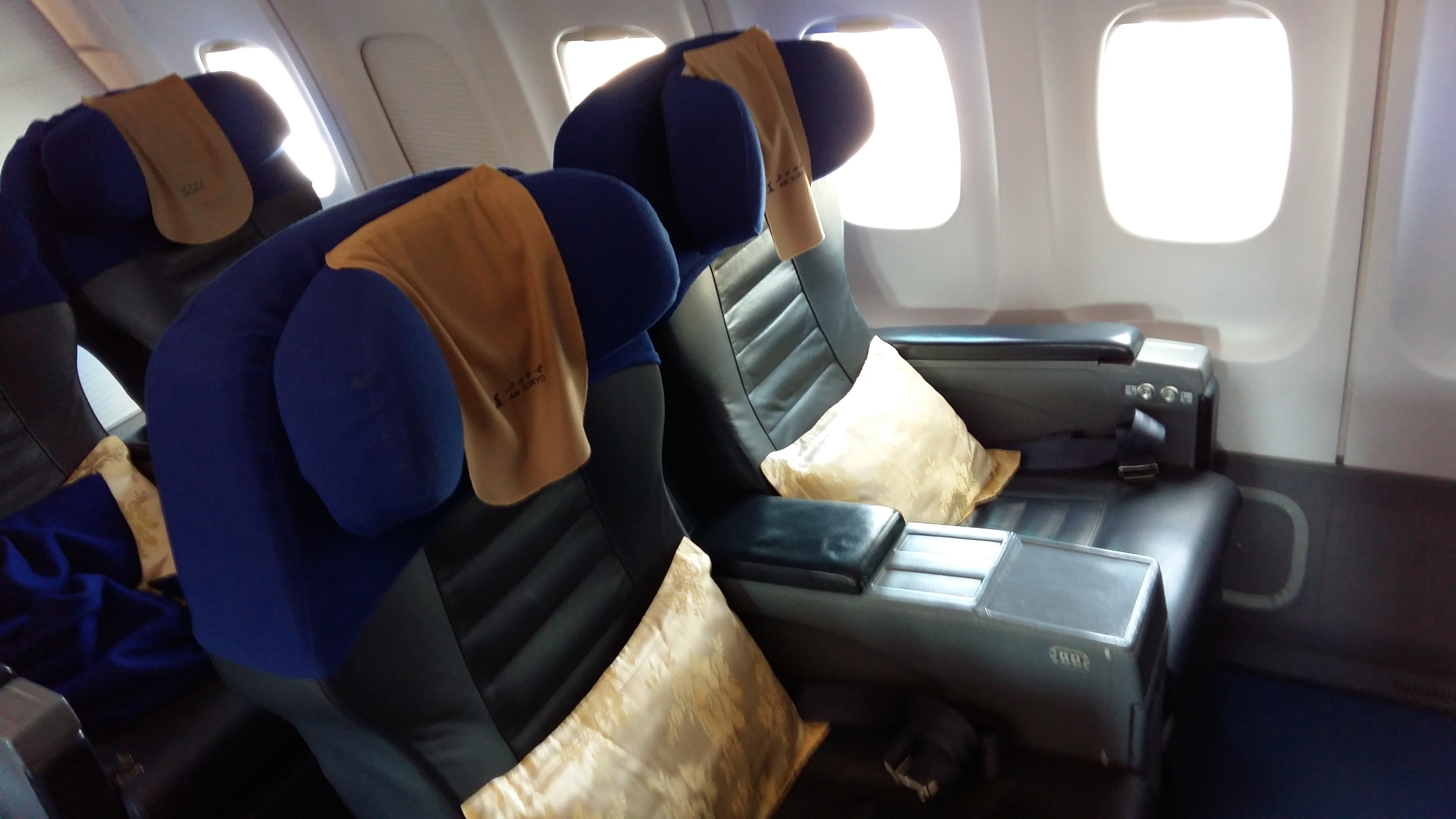 Air Koryo Tupolev Tu-204 business class.